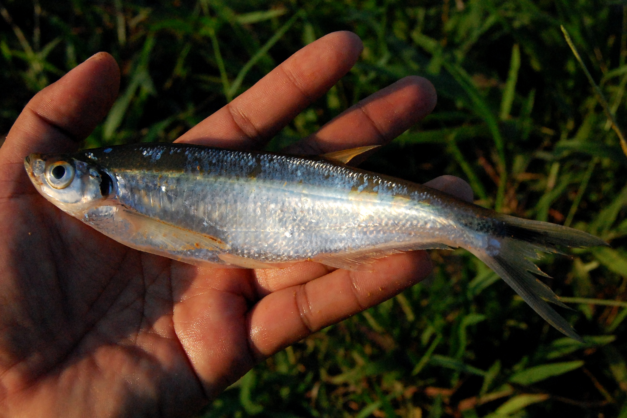 Oxygaster anomalura, 151 mm SL (standard length). From Kawan Batu River (tributary of Mentaya River), Upper Seruyan, Central Kalimantan, Indonesia. Note that the operculum was damaged by hand-net.